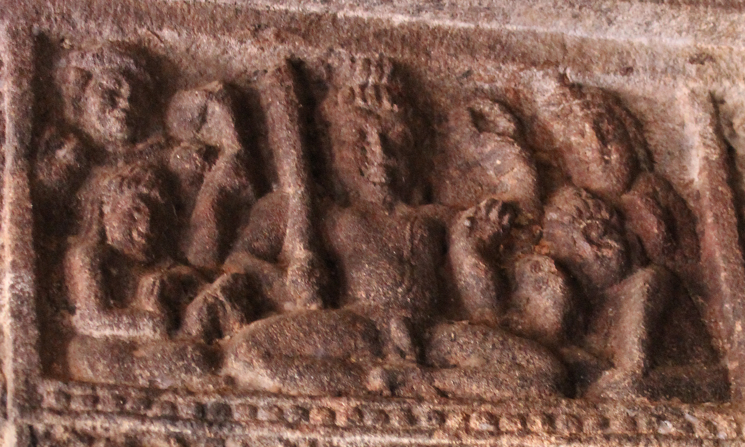 Lakulīśa (Śiva as the Divine Teacher of the Pāśupatas) among his four disciples Kuśika, Gārgya, Mitra, and Kauruṣya (with other versions of their names being known), rock-cut stone relief, Cave Temple No. 2 at Badami, Karnataka, Early Chalukya dynasty, second half of the 6th century CE